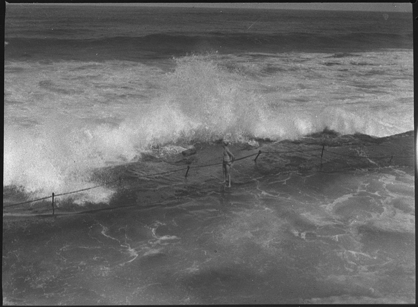 The Bogey Hole